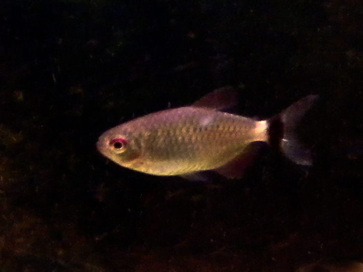 Red eye tetra in my home aquarium